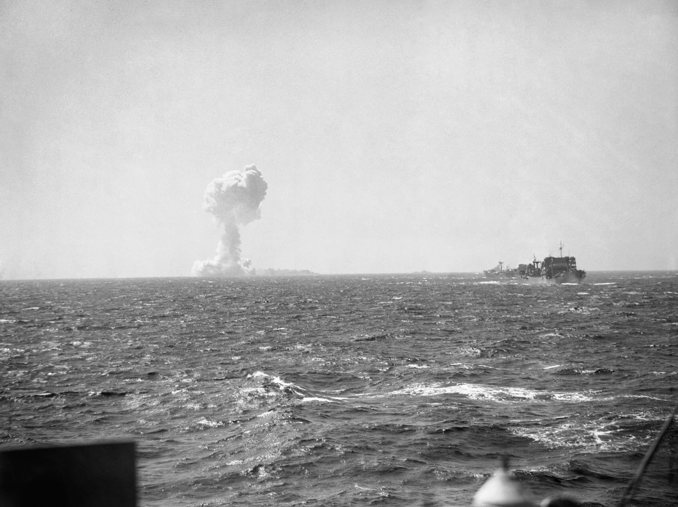 The Royal Navy during the Second World War On the horizon HMS AIREDALE seen blowing up after a direct hit from enemy bombers during a convoy from Alexandria to Malta.